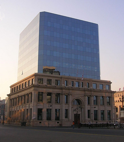 Digitally altered to remove some wires crossing the scene.